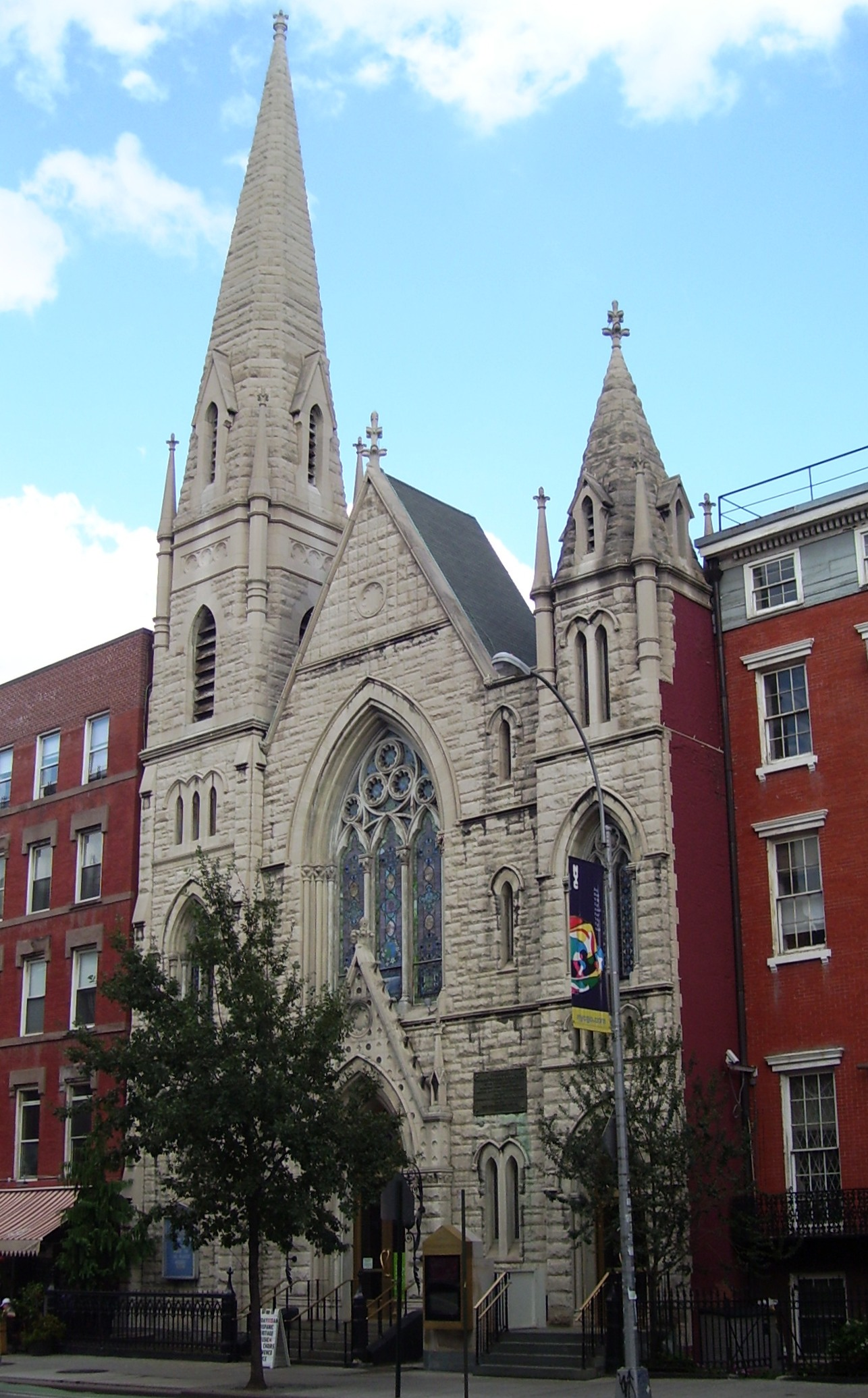 The Middle Collegiate Church on Second Avenue between 6th and 7th Streets in the East Village, Manhattan, New York City, a Gothic Revival Dutch Reformed church, built in 1891-92 and designed by Samuel B. Reed. The stained glass windows are by Louis Comfort Tiffany. It is located within the East Village/Lower East Side Historic District (Sources: "East Village/Lower East Side Historic District Designation Report" and AIA Guide to NYC(4th ed.)}